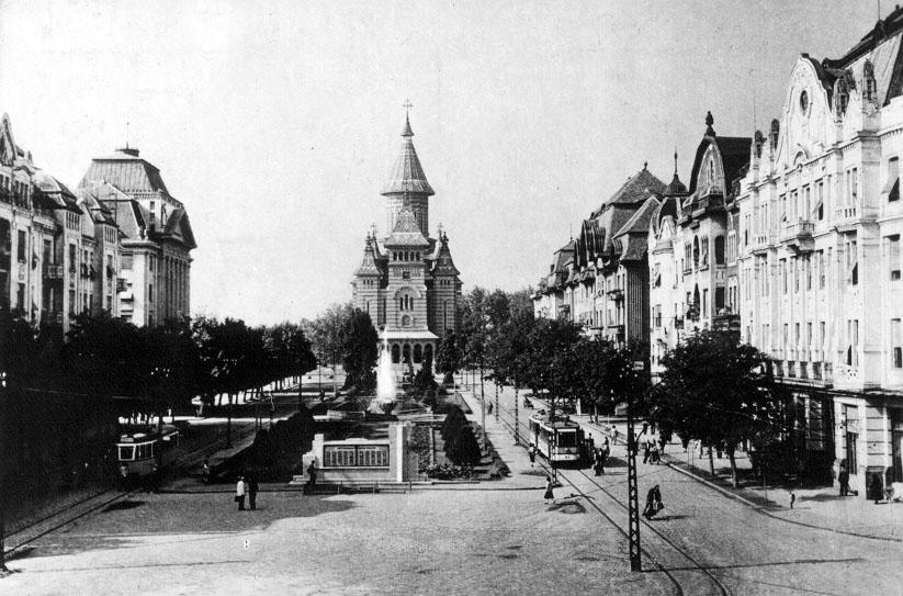 Victory Square in Timişoara.